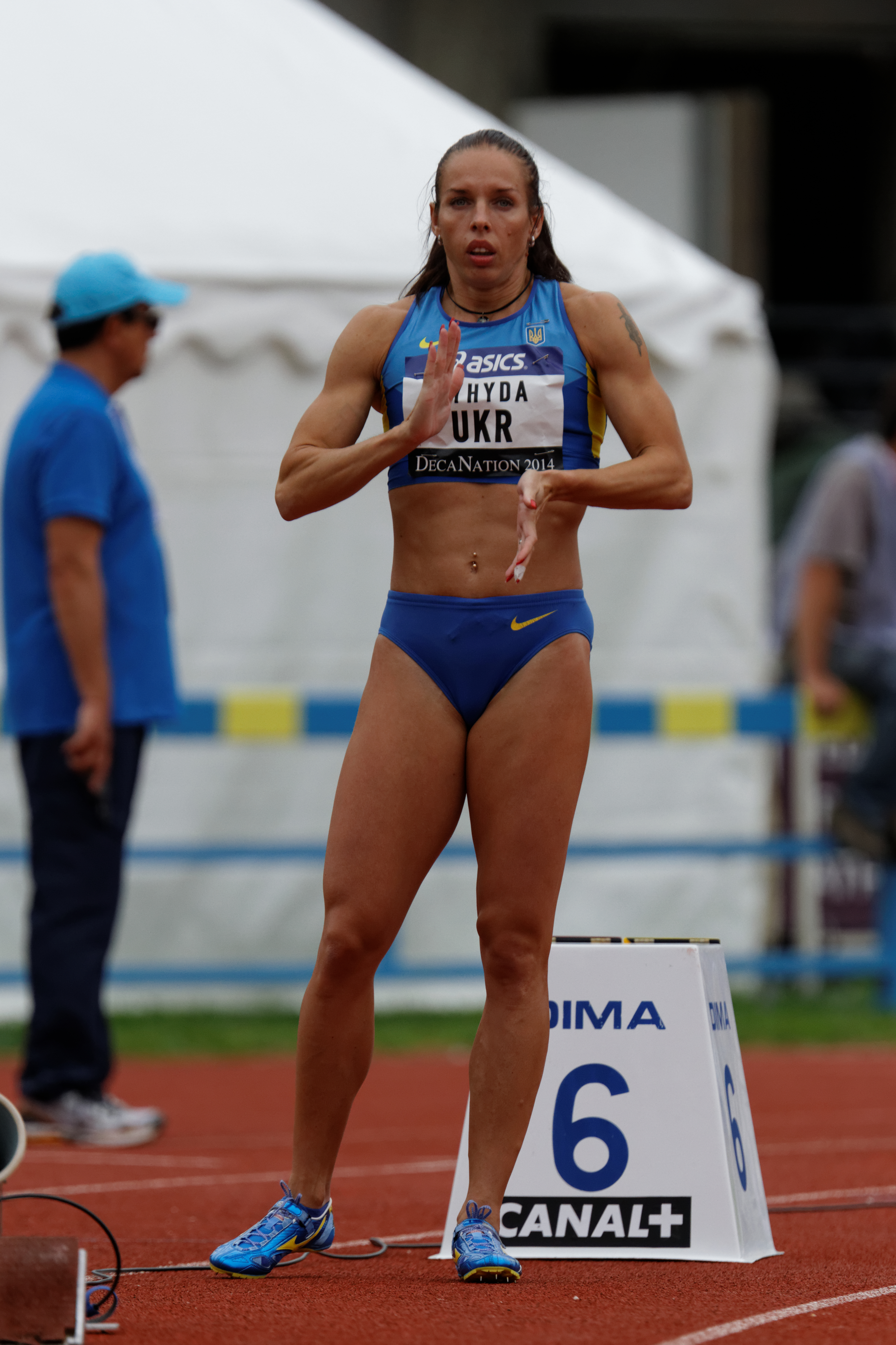 DécaNation 2014